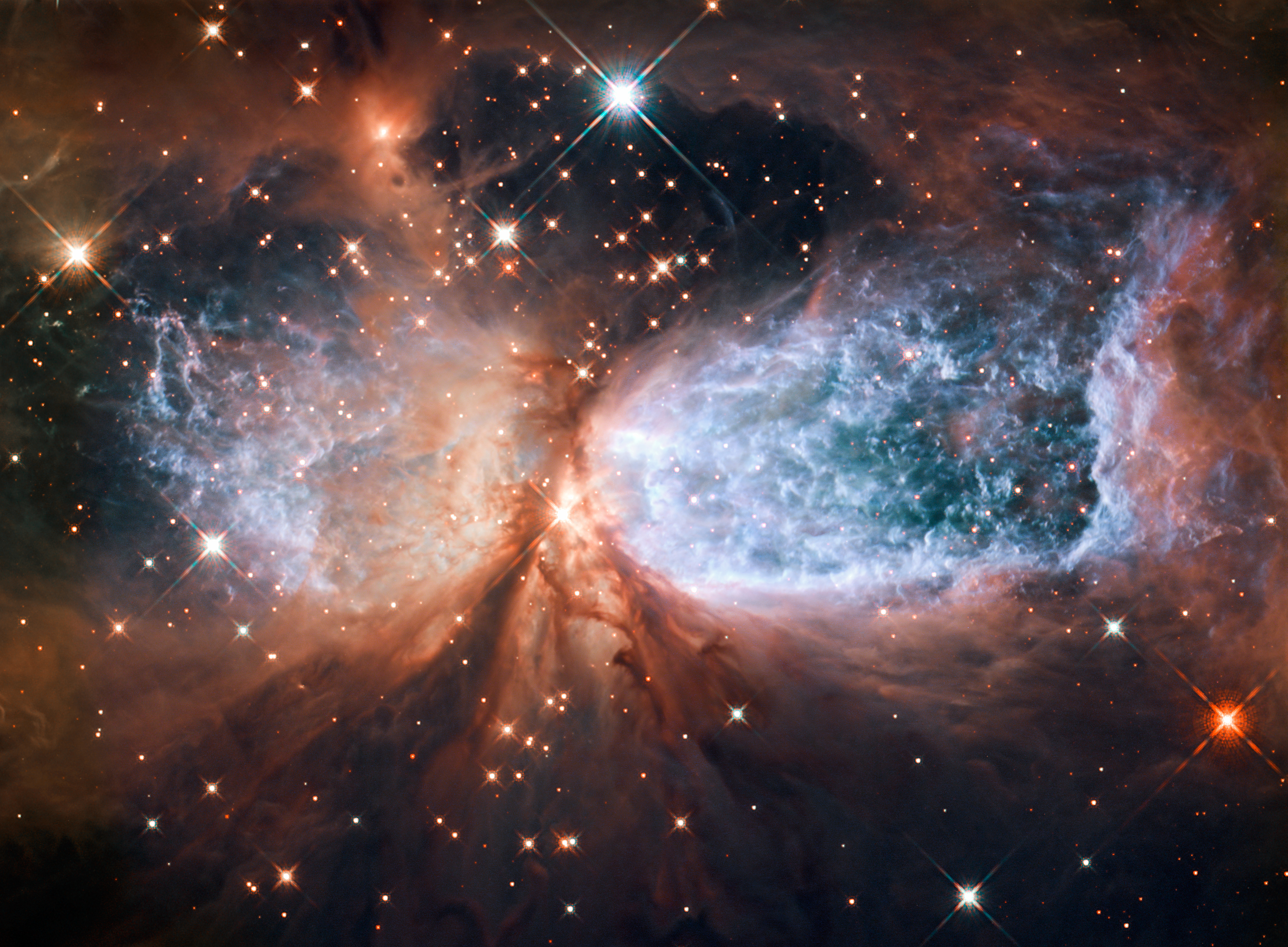 This image from the NASA/ESA Hubble Space Telescope shows Sh 2-106, or S106 for short. This is a compact star forming region in the constellation Cygnus (The Swan). A newly-formed star called S106 IR is shrouded in dust at the center of the image, and is responsible for the surrounding gas cloud’s hourglass-like shape and the turbulence visible within. Light from glowing hydrogen is colored blue in this image.